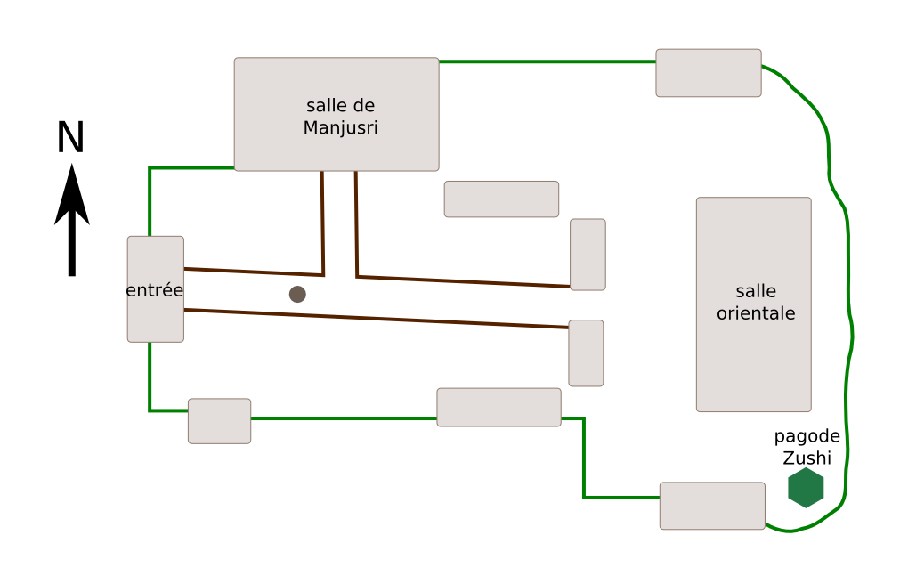 A map of the Foguang Temple